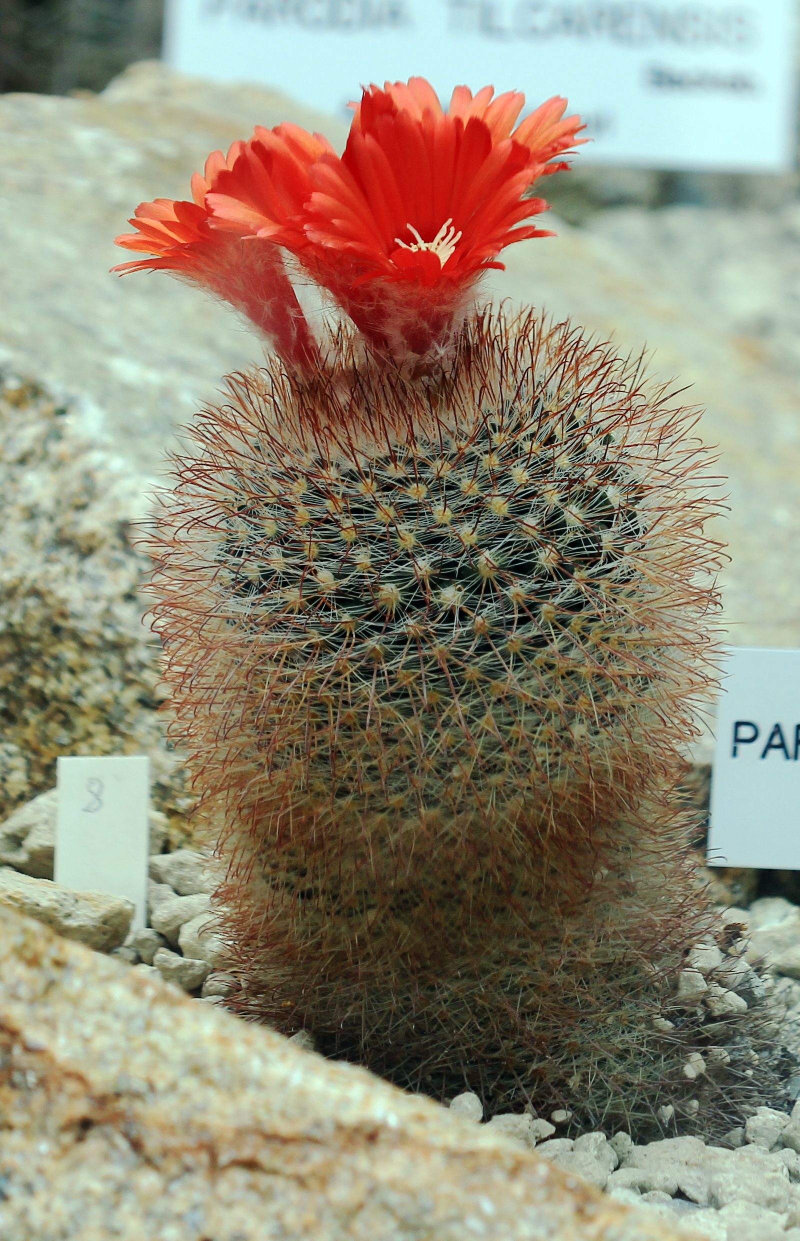 Cactus Parodia microsperma, The Botanical Gardens of Charles University, Prague, Czech Republic